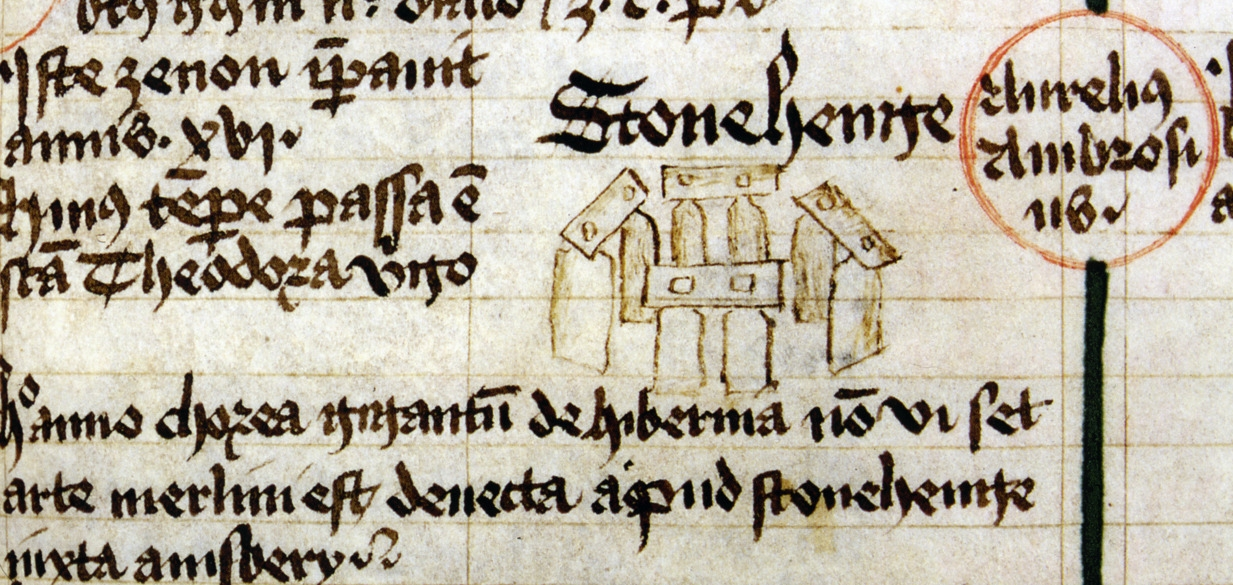 Drawing of Stonehenge from 1441, published in the historical compilation "Compilatio de Gestis"